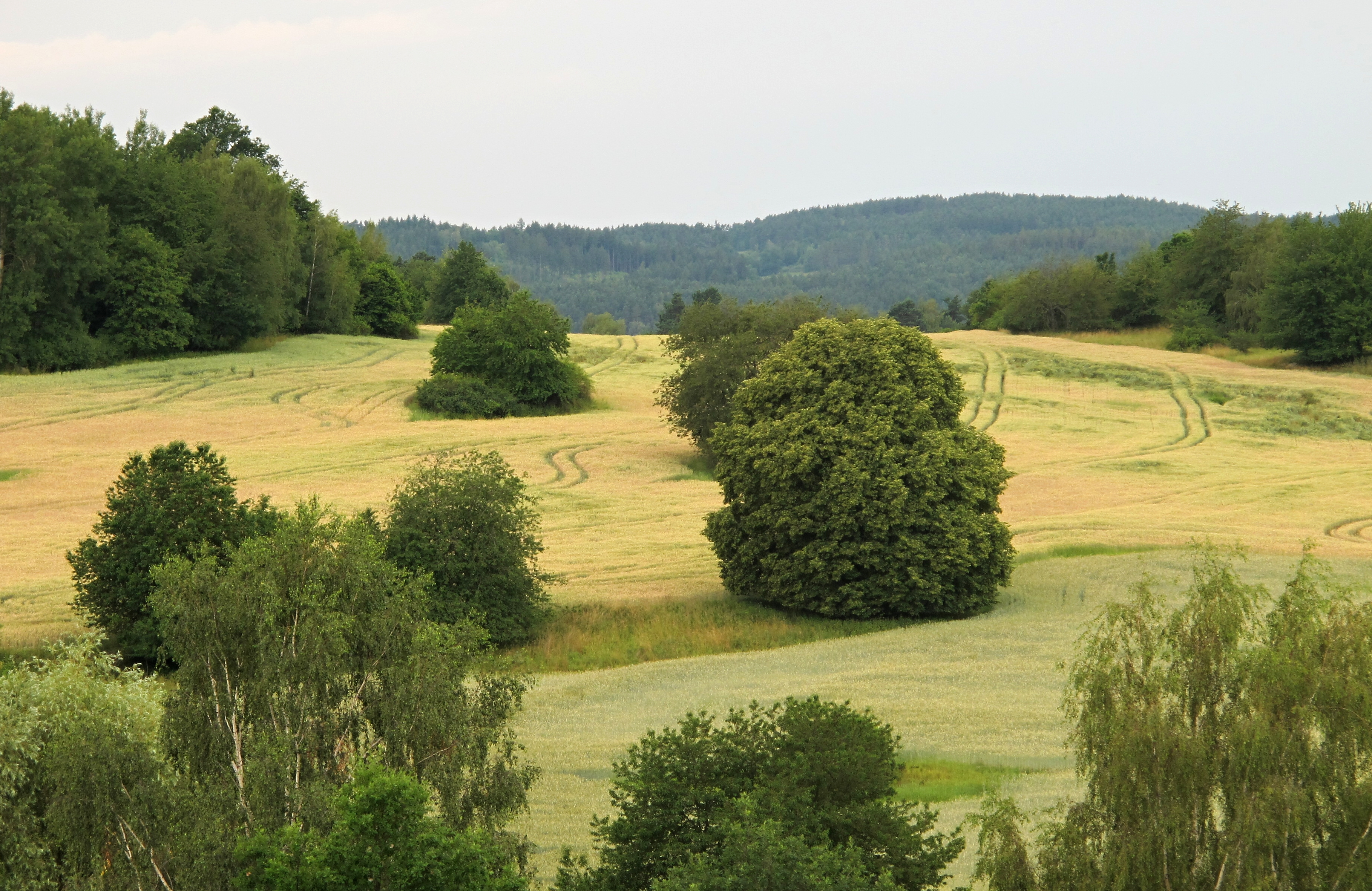 Nature park Petrovicko near Petrovice, Příbram District in Czech Republic